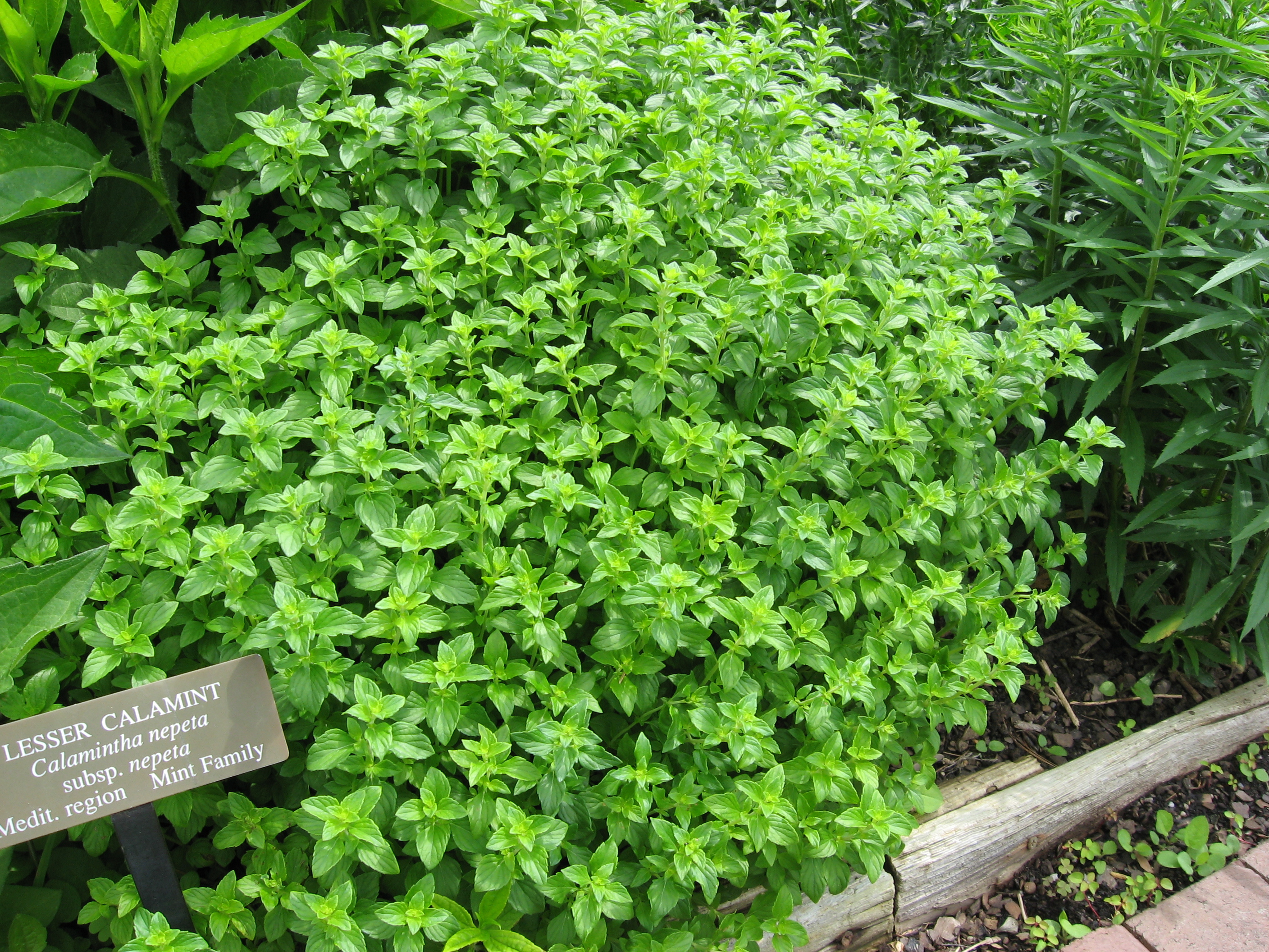 A picture of Calamintha nepeta subsp. nepeta.